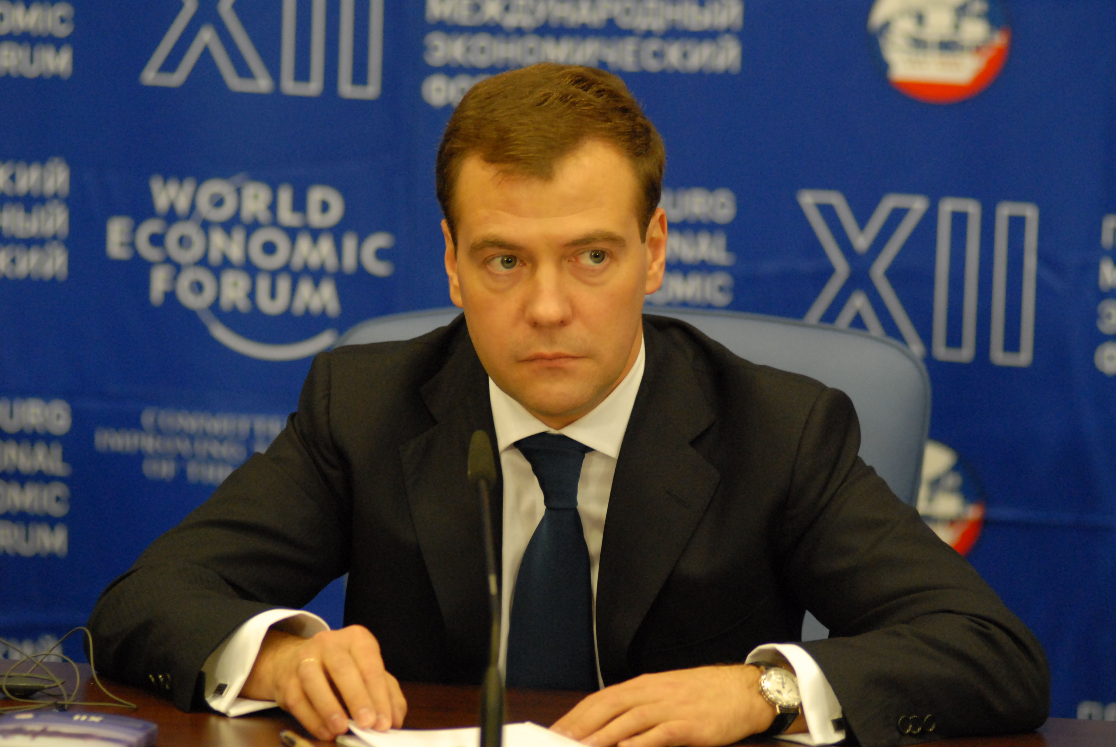 ST PETERSBURG/RUSSIA, 7JUN08 - Dmitry Medvedev (Дмитрий Анатольевич Медведев), President of Russia, captured during the World Economic Forum Russia CEO Roundtable 2008 in St Petersburg, Russia, June 7, 2008.